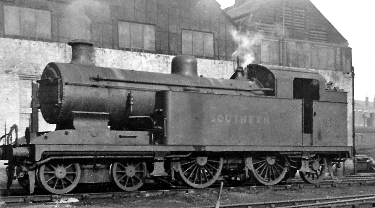 An old I1X 4-4-2T at Brighton Locomotive Depot. No. 2597 is one of the first LB&SC Marsh 4-4-2Ts of class I1, built 12/1906 and rebuilt 5/28 as an I1X, it was withdrawn in 12/46 - nine months after this photograph.